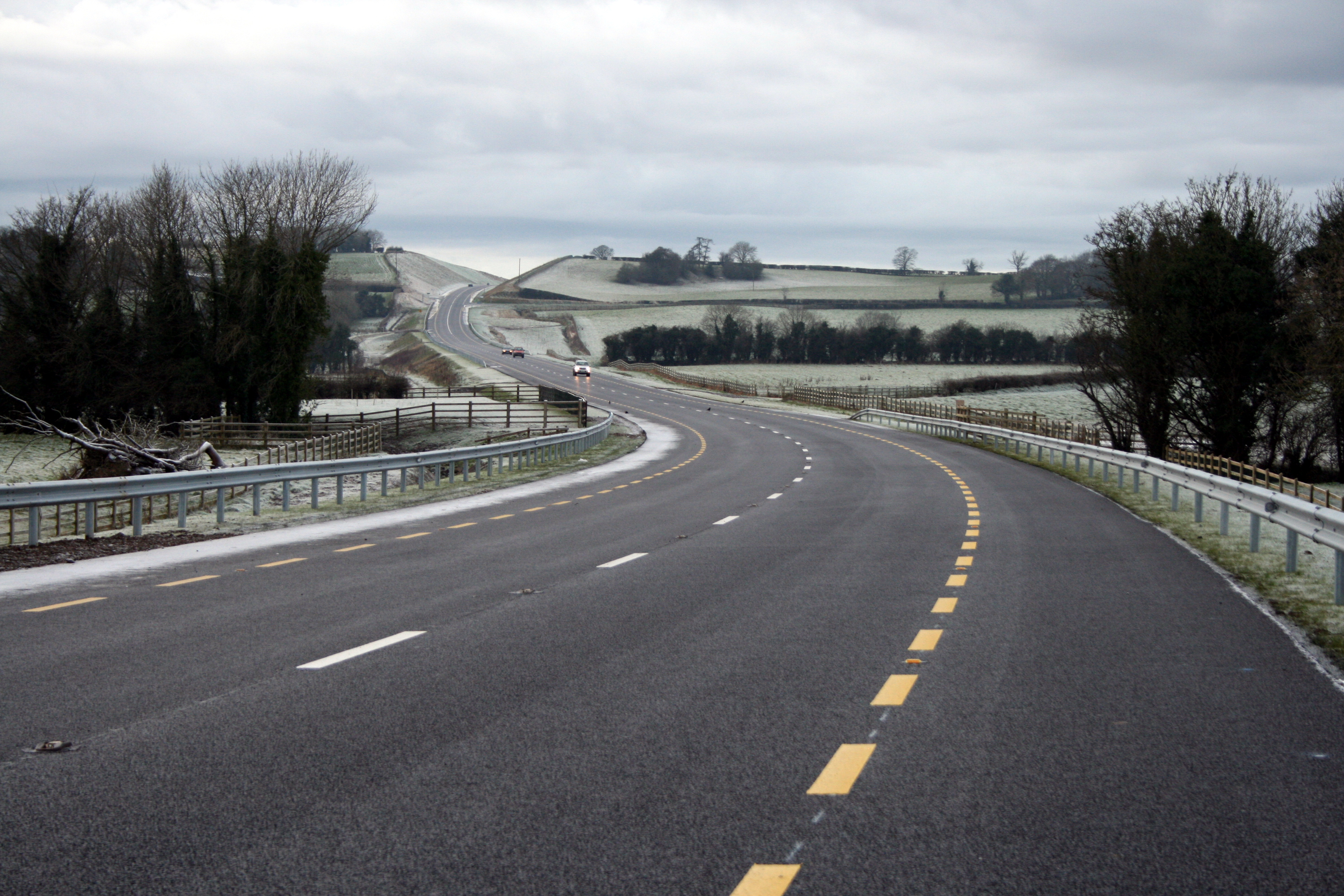 The R747 extension between the old N9 road and the M9 motorway.